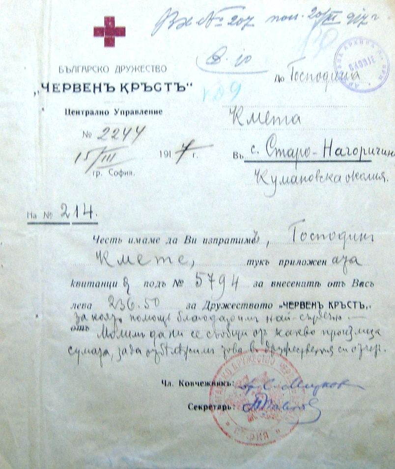 Receipt of payment of money from the Red Cross, collected in Staro Nagoricane, Kumanovo Area. (15 March 1917) This media file is produced by Wikipedian in Residence in Category:Wikipedian in Residence at DARM in 2016.